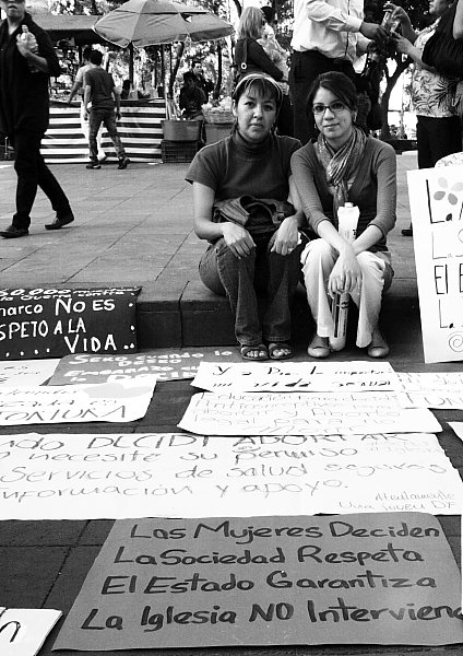 "Las mujeres deciden, la sociedad respeta, el estado garantiza, la iglesia no interviene"